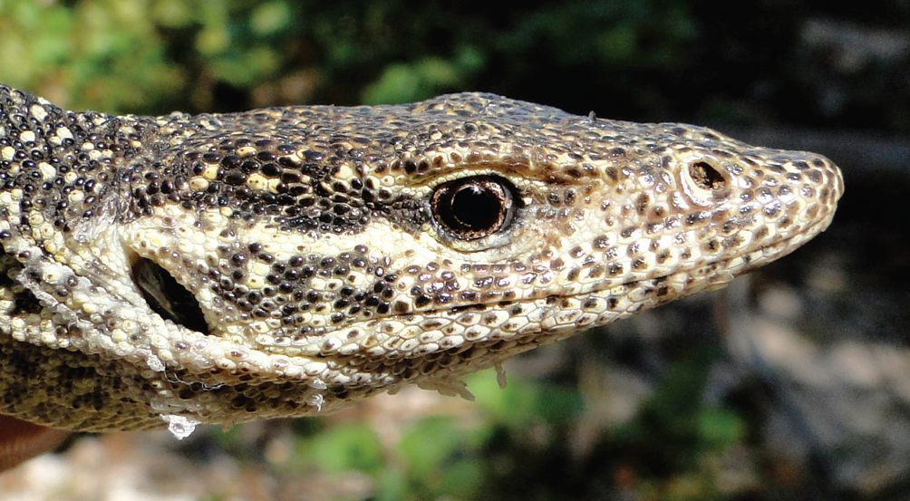 Head of Varanus timorensis – male from dry coastal forest in Loré, Lautém District.